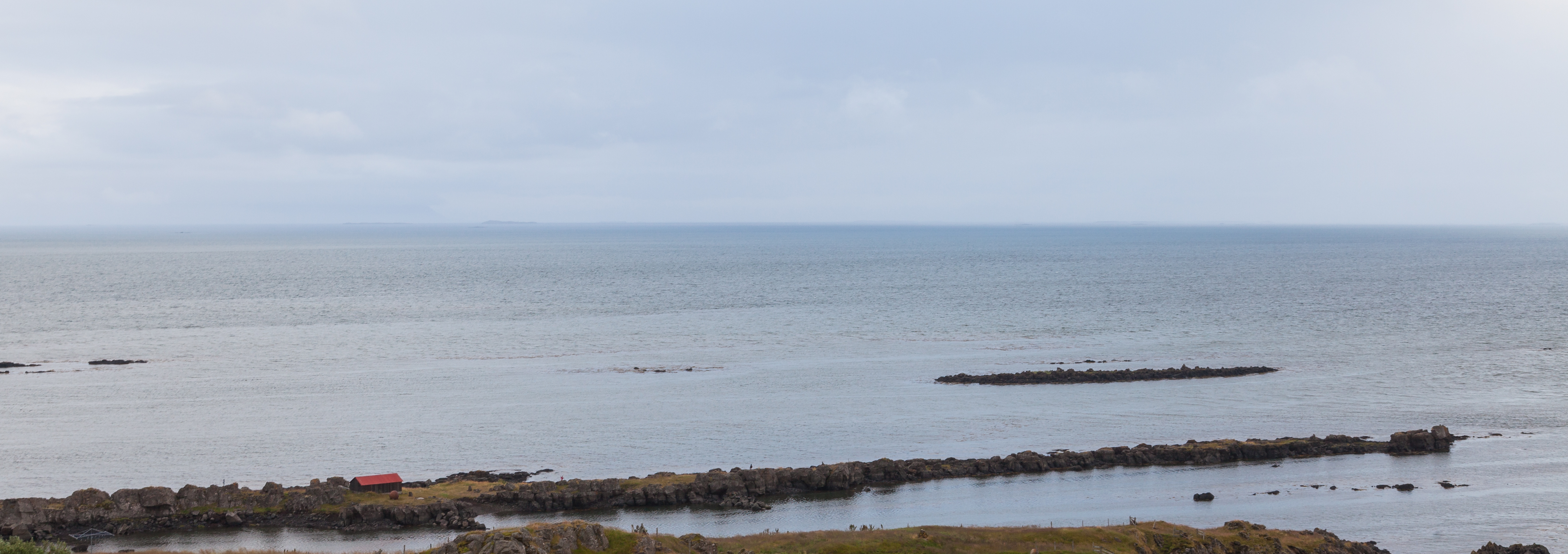 Kjálkafjörður fjord, Vestfirðir, Iceland